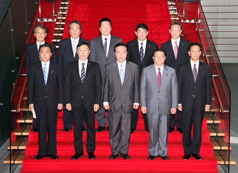 Yoshihiko Noda, Prime Minister, posed for the photo with Osamu Fujimura, Chief Cabinet Secretary, Tsuyoshi Saitō, Hiroyuki Nagahama, Makoto Taketoshi, Deputy Chief Cabinet Secretaries, Yoshinori Suematsu, Yoshio Tezuka, Akihisa Nagashima, Hiranao Honda and Shun'ichi Mizuoka, Special Advisors to the Prime Minister, at the Prime Minister's Official Residence in Chiyoda Ward, Tōkyō Metropolis on September 5, 2011.